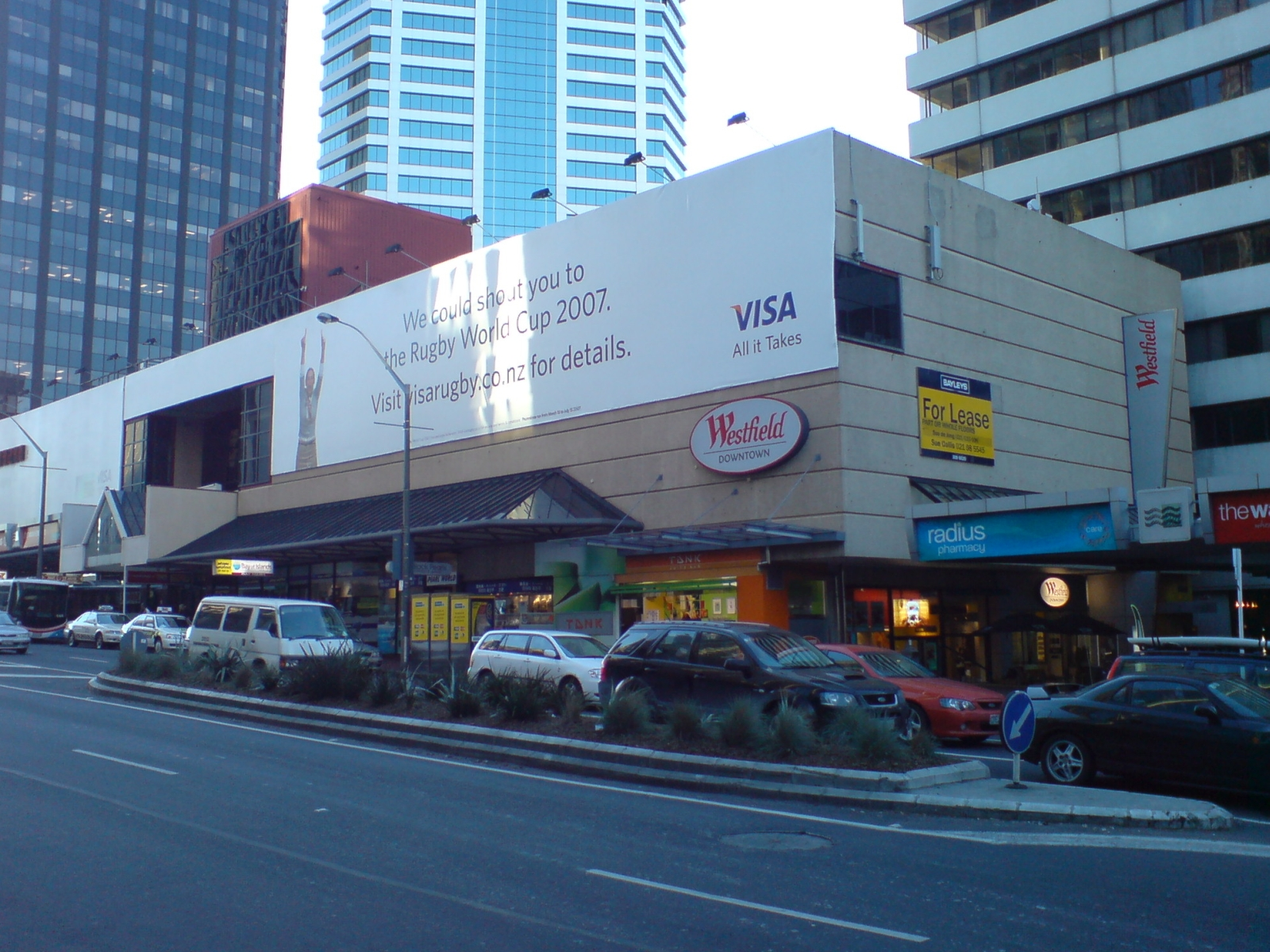 Westfield Downtown, Auckland CBD, New Zealand. The three-story retail development is almost fully covered in massive billboards.